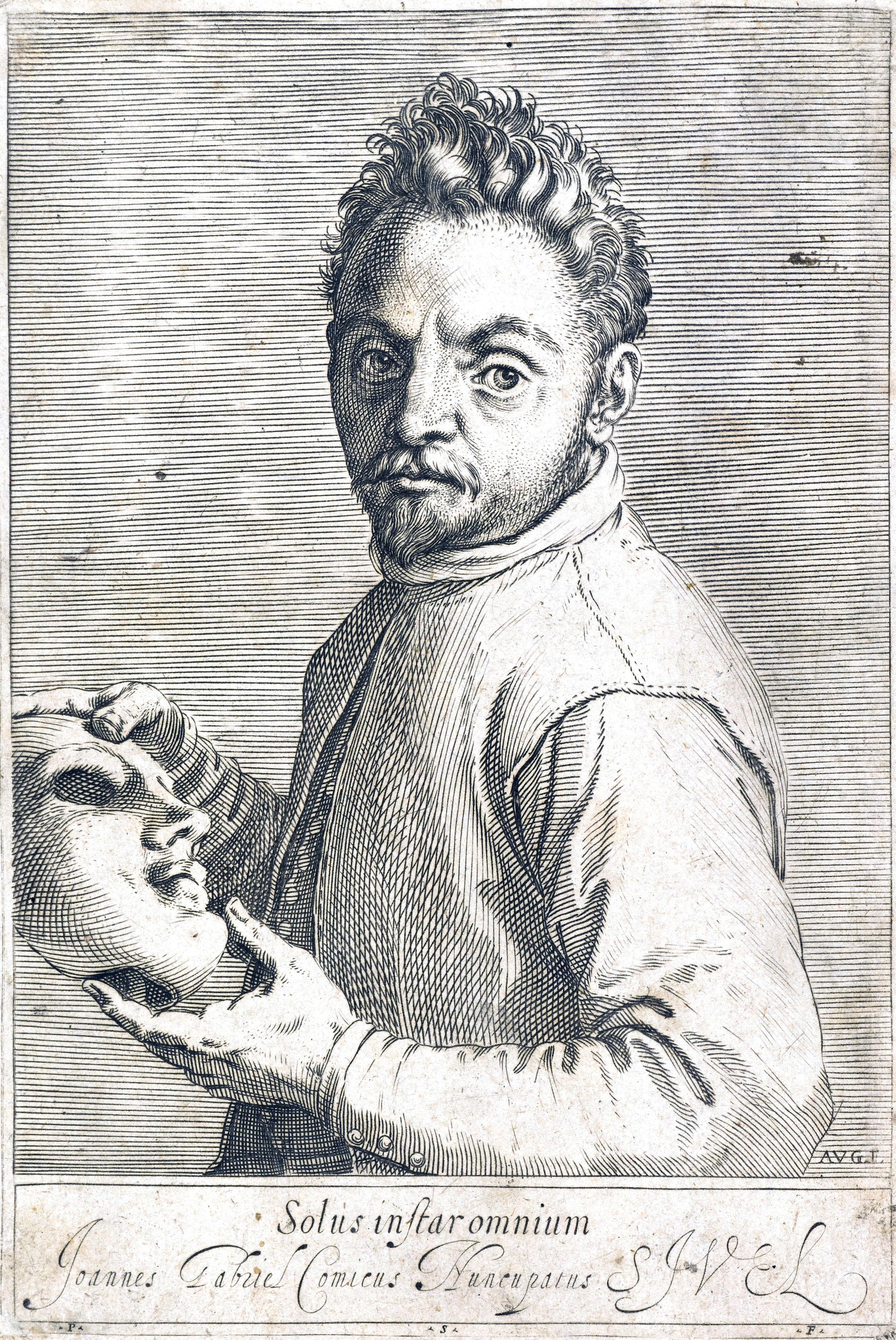 Giovanni Gabrielli ("Sivello") holding a mask